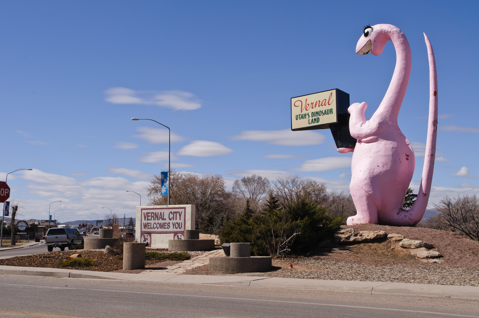 The pink sauropod greets visitors to Vernal, the main population center in northeastern Utah. This is indeed Utah's dinosaur country, because Dinosaur National Monument is only ten miles or so to the east, just north of the town of Jensen. It is also the only reason I decided to drive all the way out here. US-40 was the main east-west highway, also known as the Lincoln Highway, that stretched all the way from San Francisco to Atlantic City. Today, the sections west of Park City have been switched to I-80, but in this area, US-40 still plays an important role as it is still the only direct connection between Salt Lake City and Denver. (I-70 had been intended to supersede US-40 through Utah and Colorado, but I-70 ended up being re-oriented southwest to point toward Las Vegas and Los Angeles instead.)